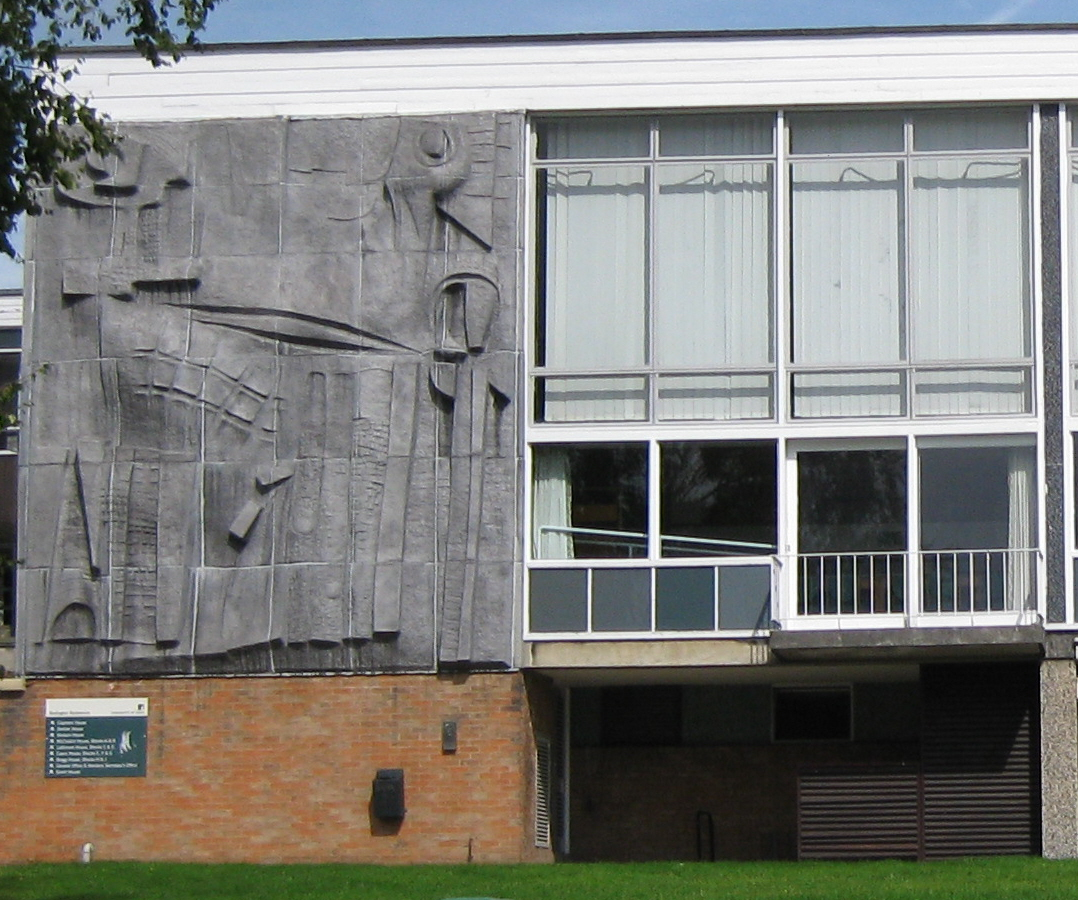 Relief panels by Hubert Dalwood on the refectory at Bodington Hall, University of Leeds student accommodation 2009